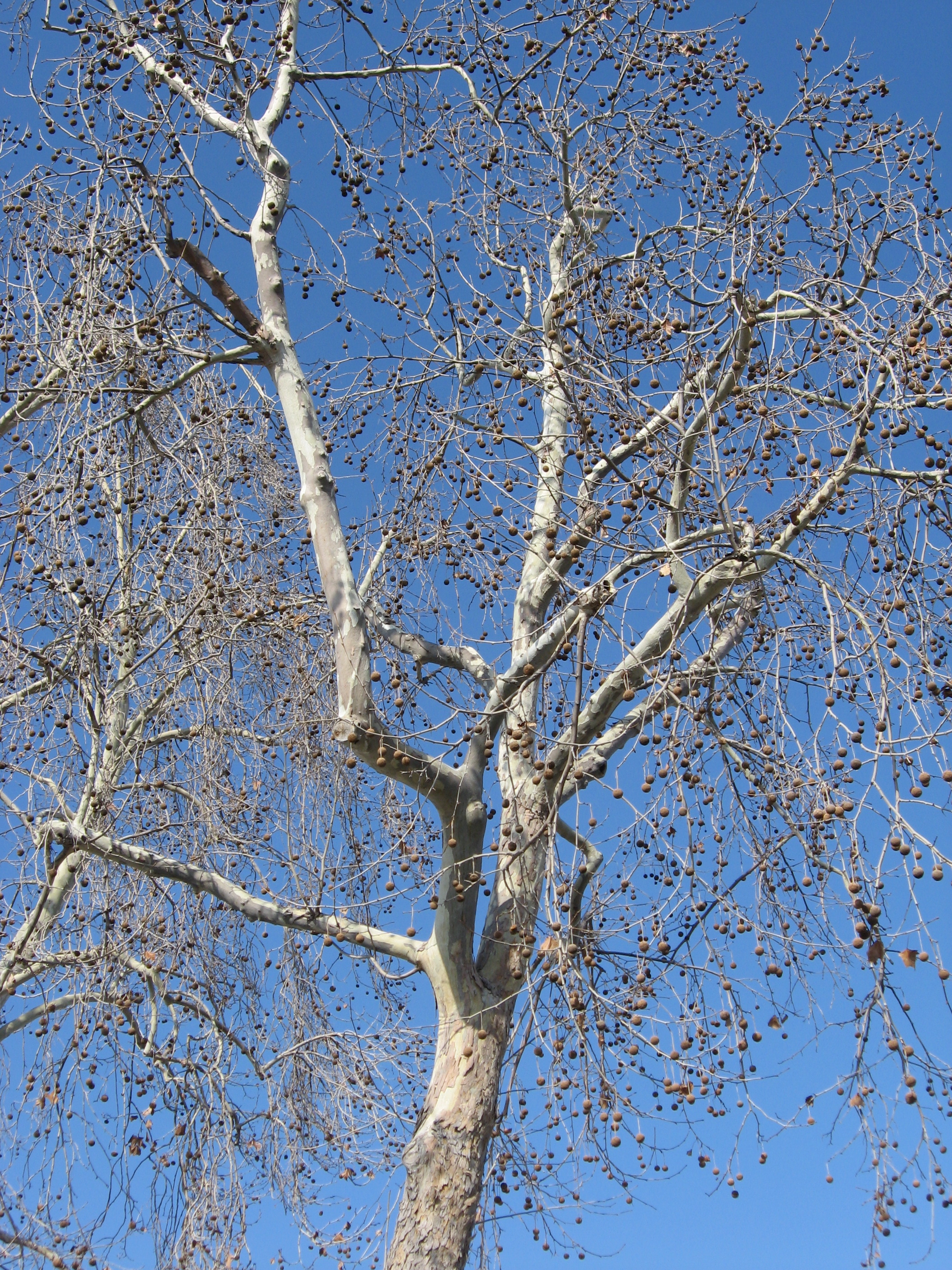 Bare Platanus racemosa (California sycamore) tree in Los Angeles in early spring.